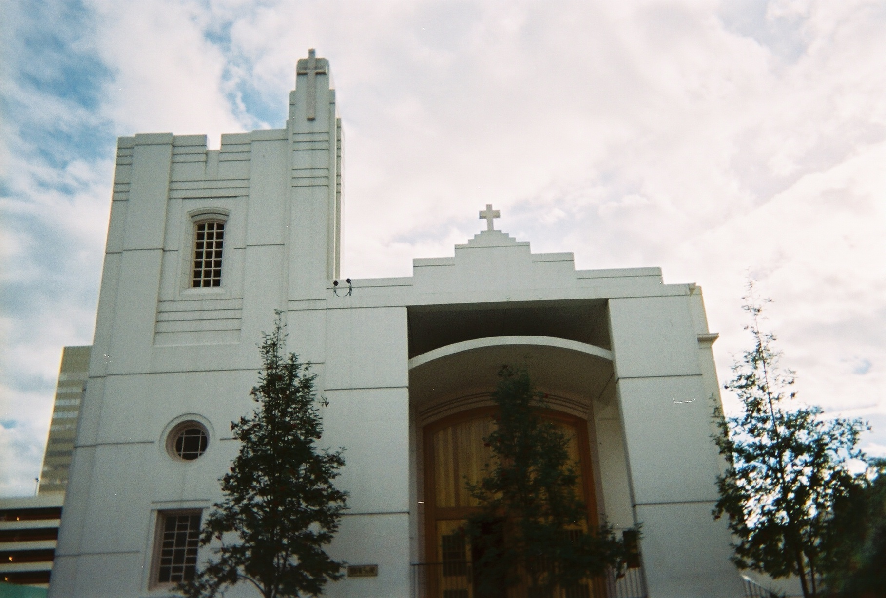 The seat of the Archdiocese of Anchorage is Holy Family Cathedral.